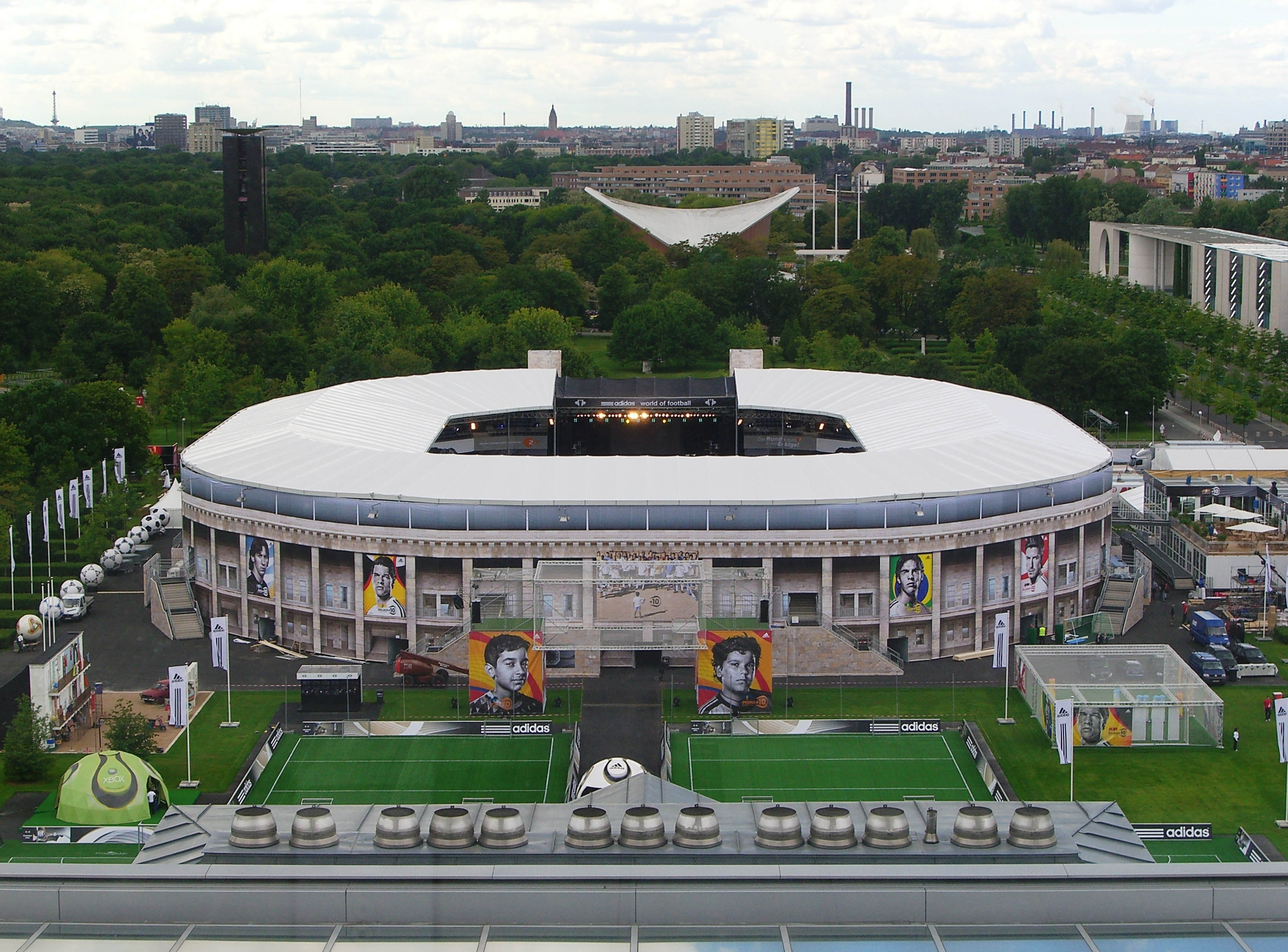 Adidas World of Football (TM) in Berlin; view from the 'Reichstag'